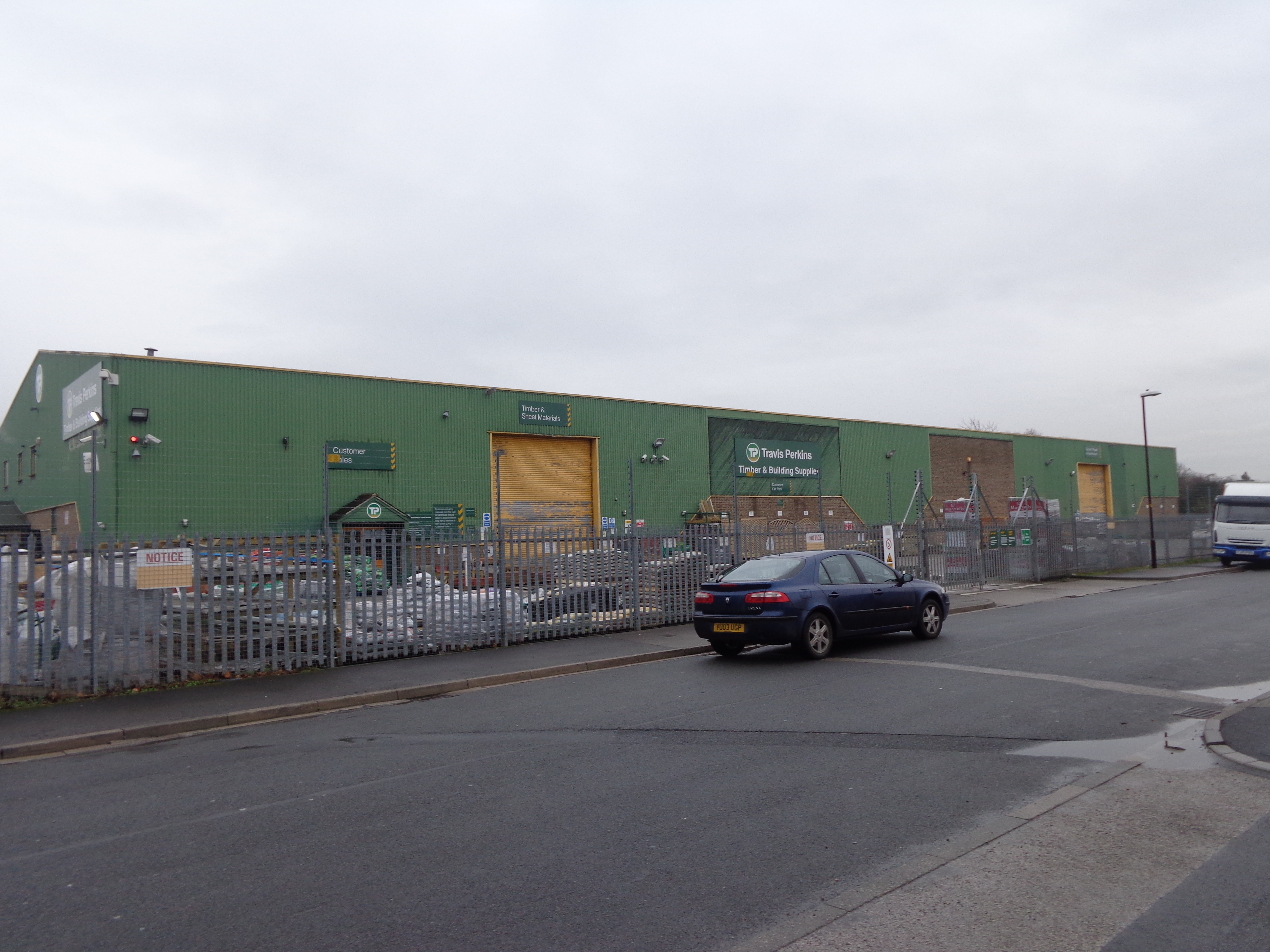 Travis Perkins, Manse Lane, Knaresborough, North Yorkshire. Taken on the afternoon of Saturday the 30th of January 2014.